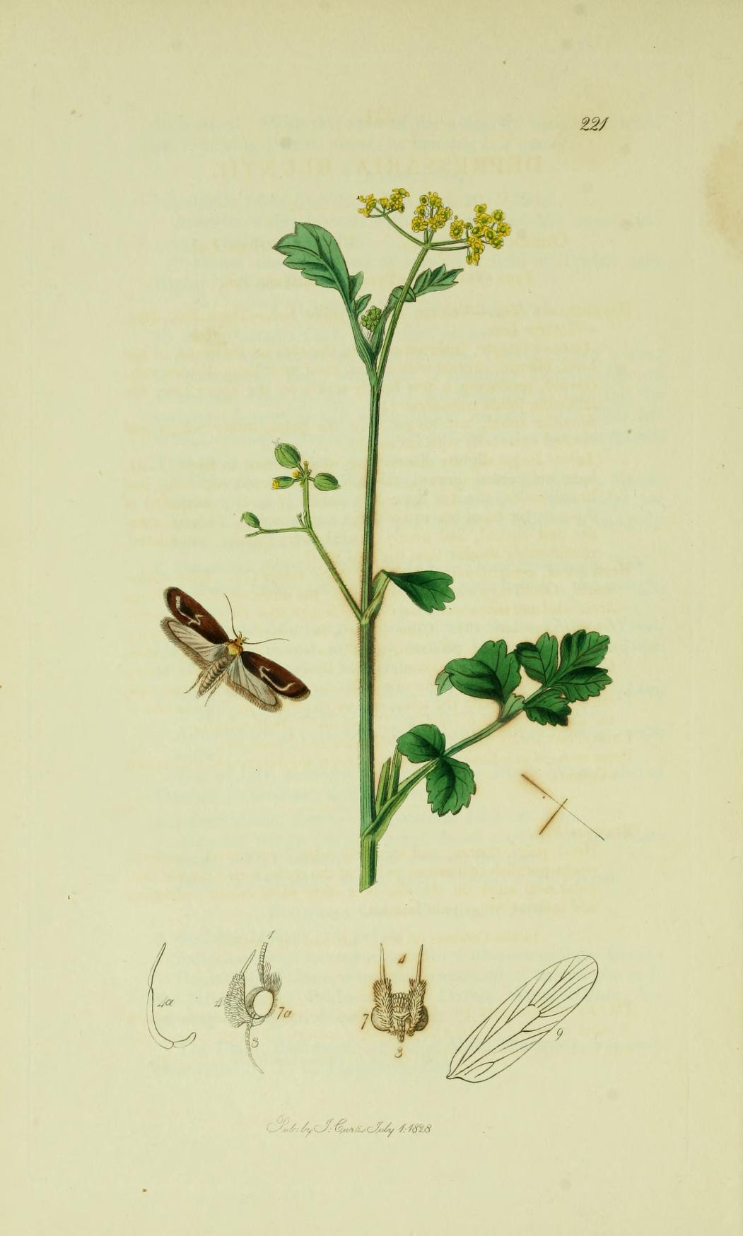 Blunt's Flat-body (Purple Carrot-seed Moth). An illustration from British Entomology by John Curtis (Vol. 6, Lepidoptera).